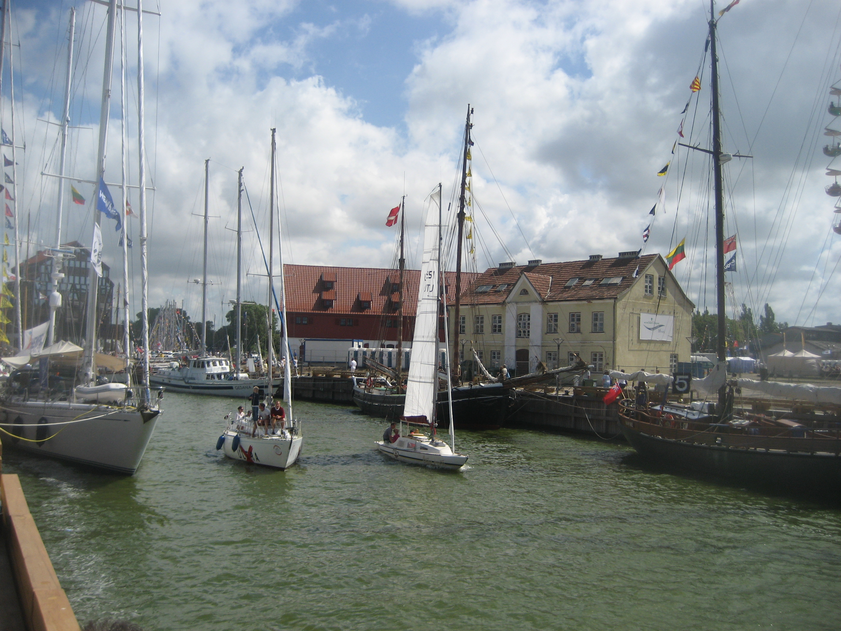 Photo of private boats in Klaipėda.